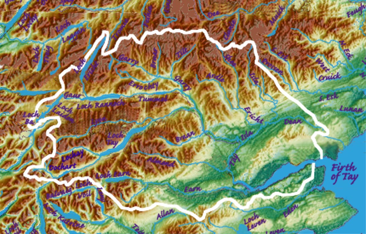 River Tay catchment (topographic)